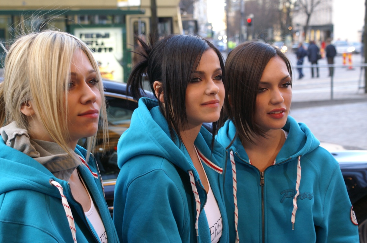 Russian Girlgroup Serebro during the Eurovision Song Contest Week in Helsinki (left to right: Marina Lizorkina, Elena Temnikova and Olga Seryabkina).